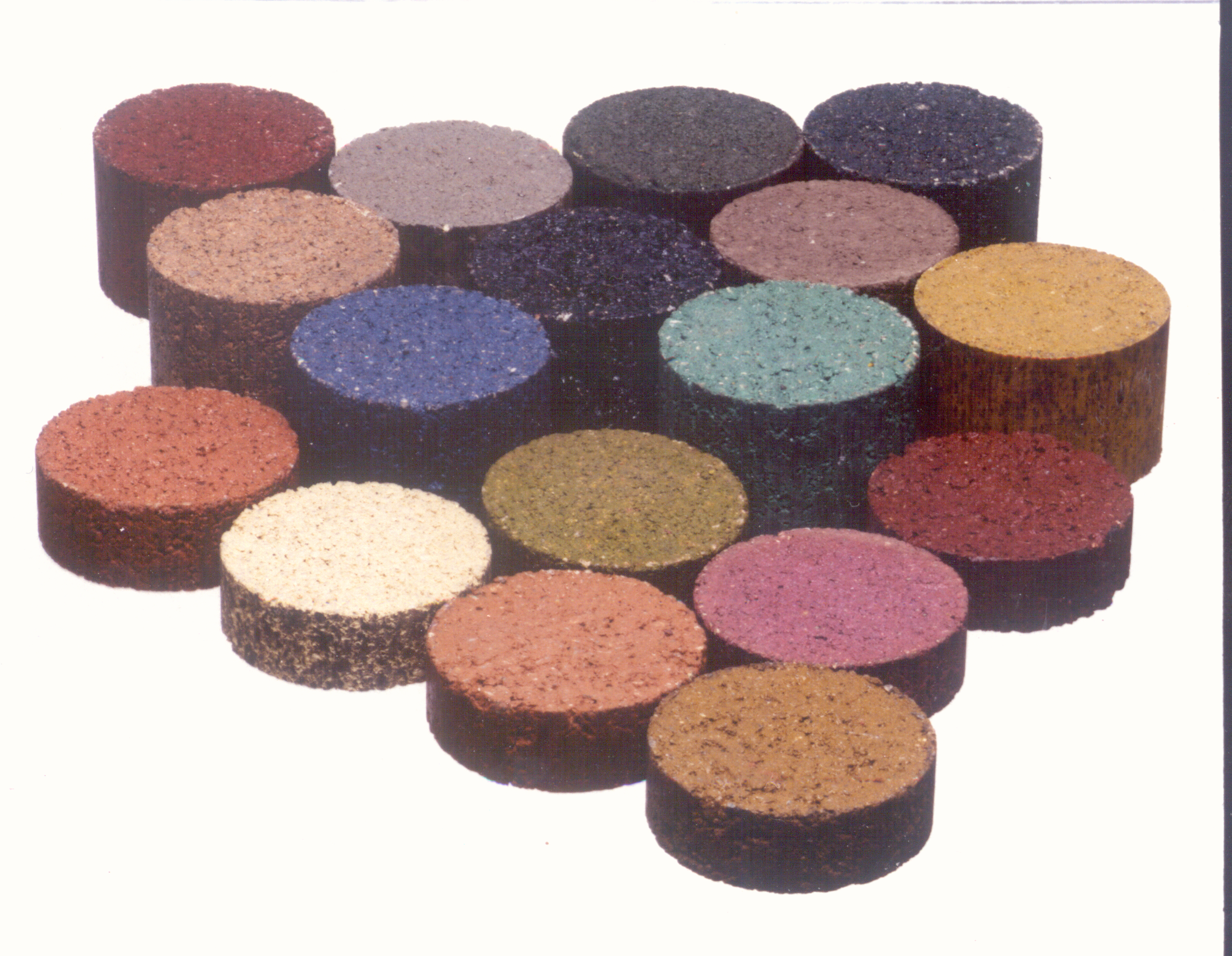 Coloured asphalt cores